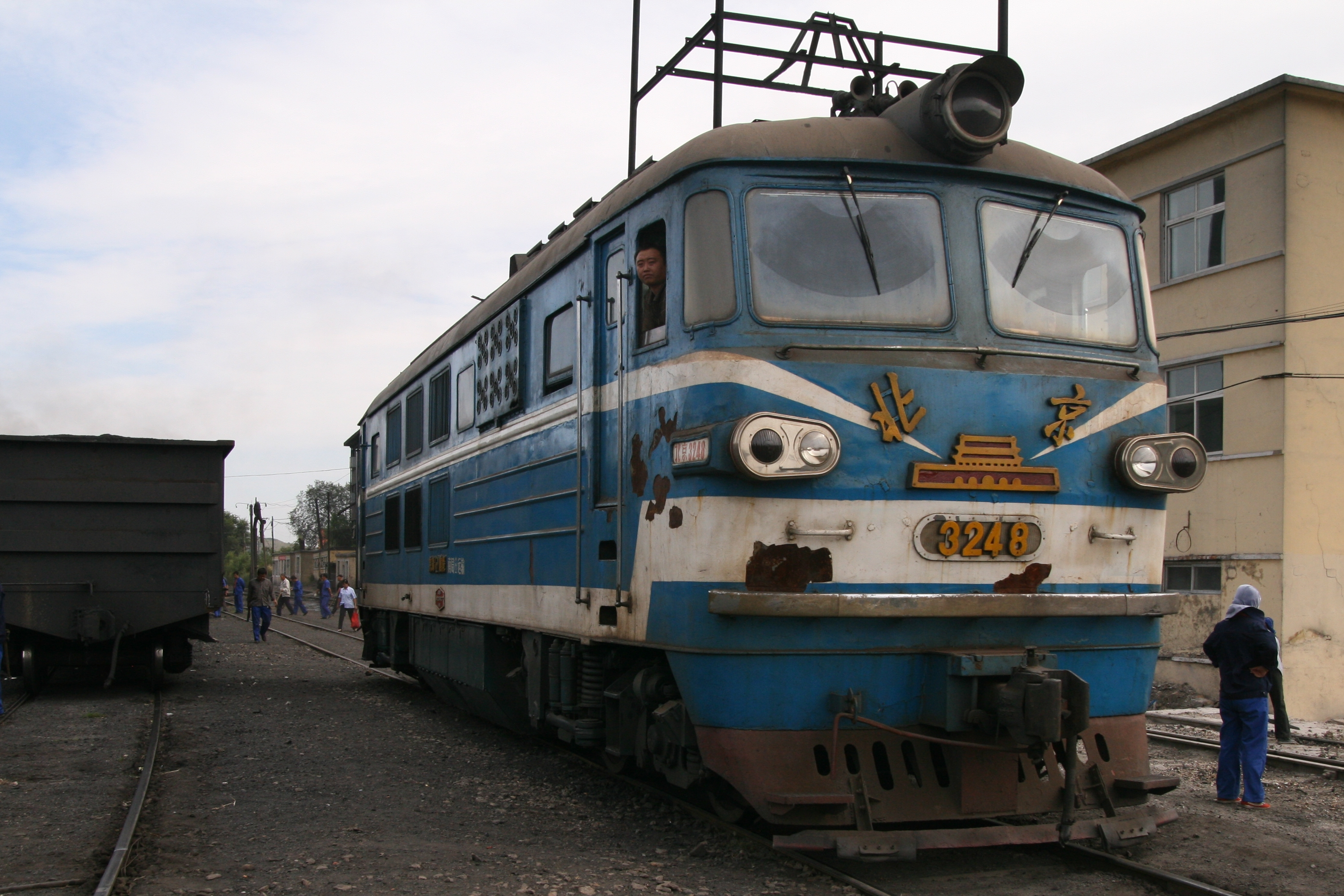 An old BJ3248 in freight service at Nanpiao, Liaoning, China